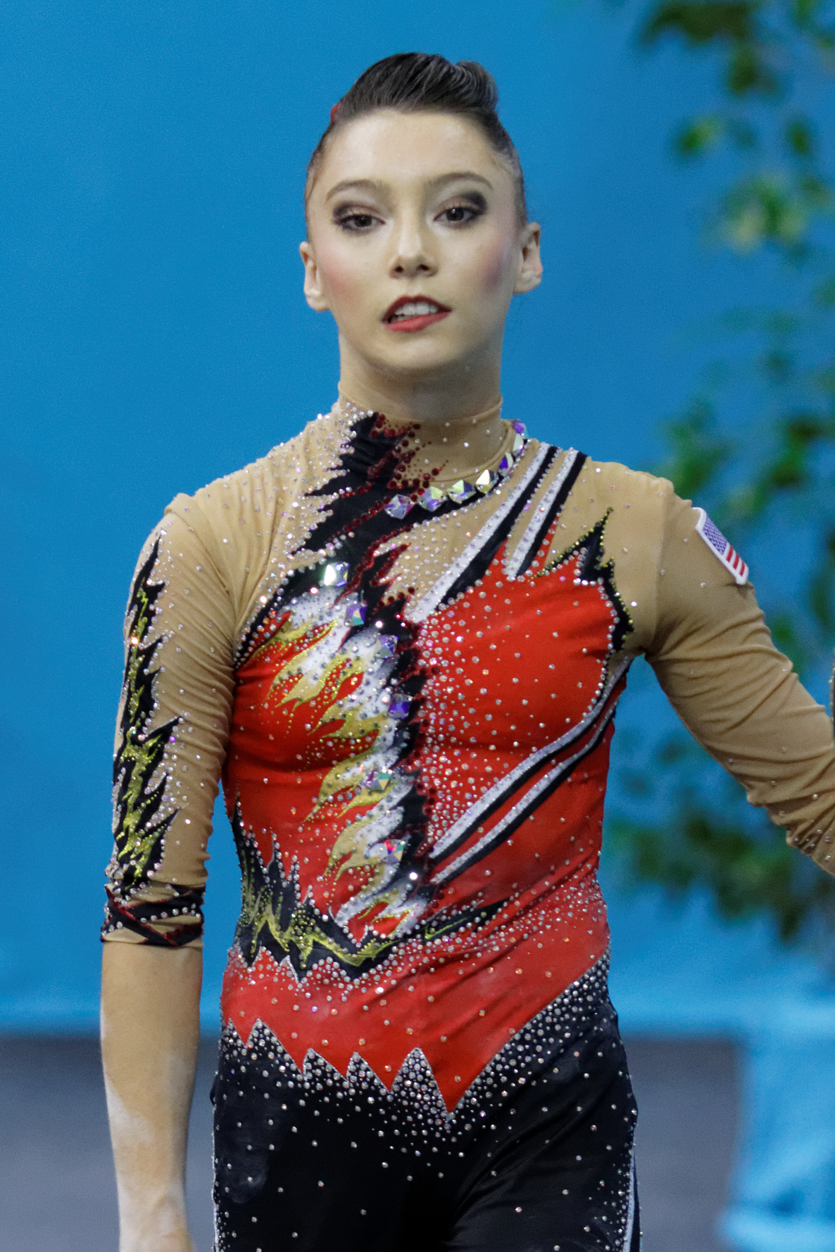 2014 Acrobatic Gymnastics World Championships, 10th-12 July, Levallois-Perret, France. Qualifications: mixed pair. USA 1.